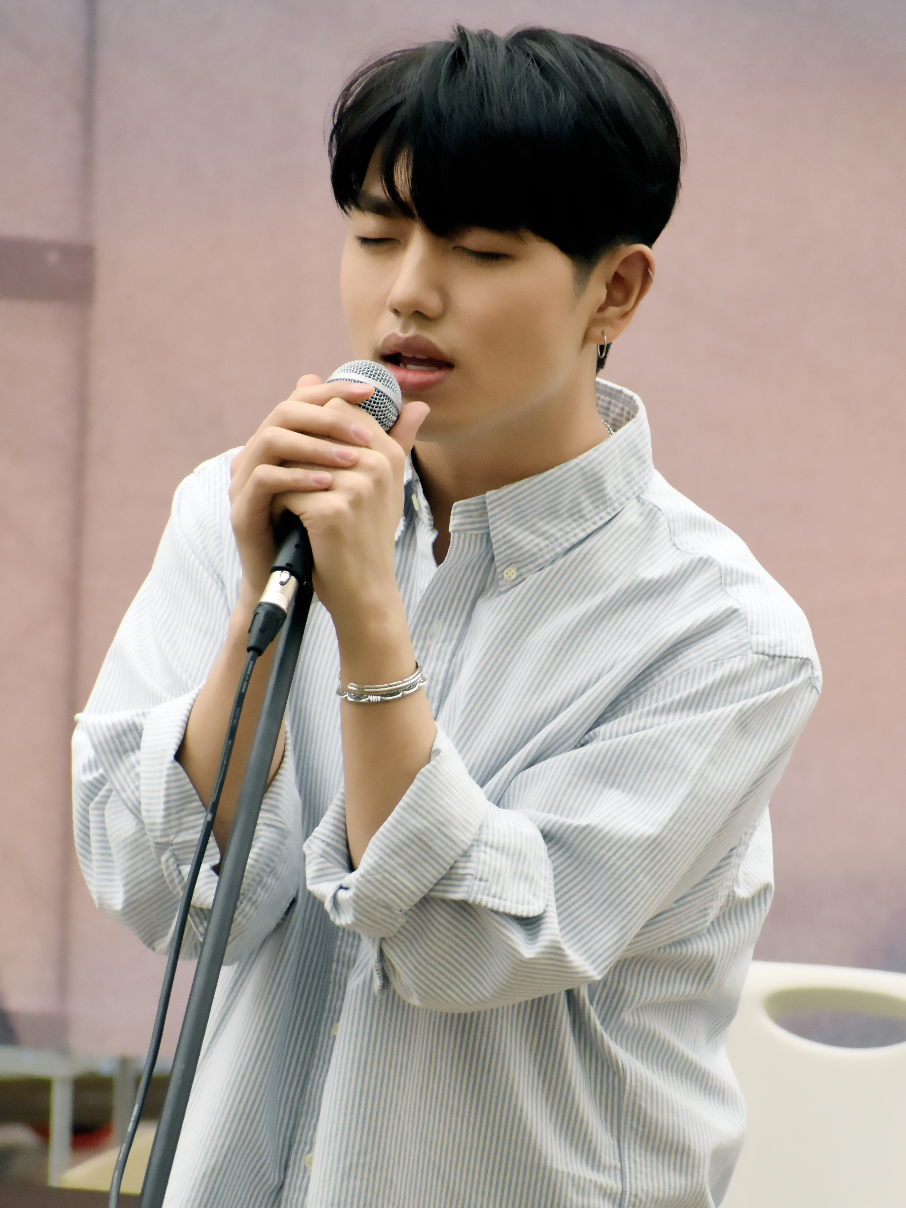 Sam Kim at a fansign event at COEX's Live Plaza in Seoul on December 1, 2018.